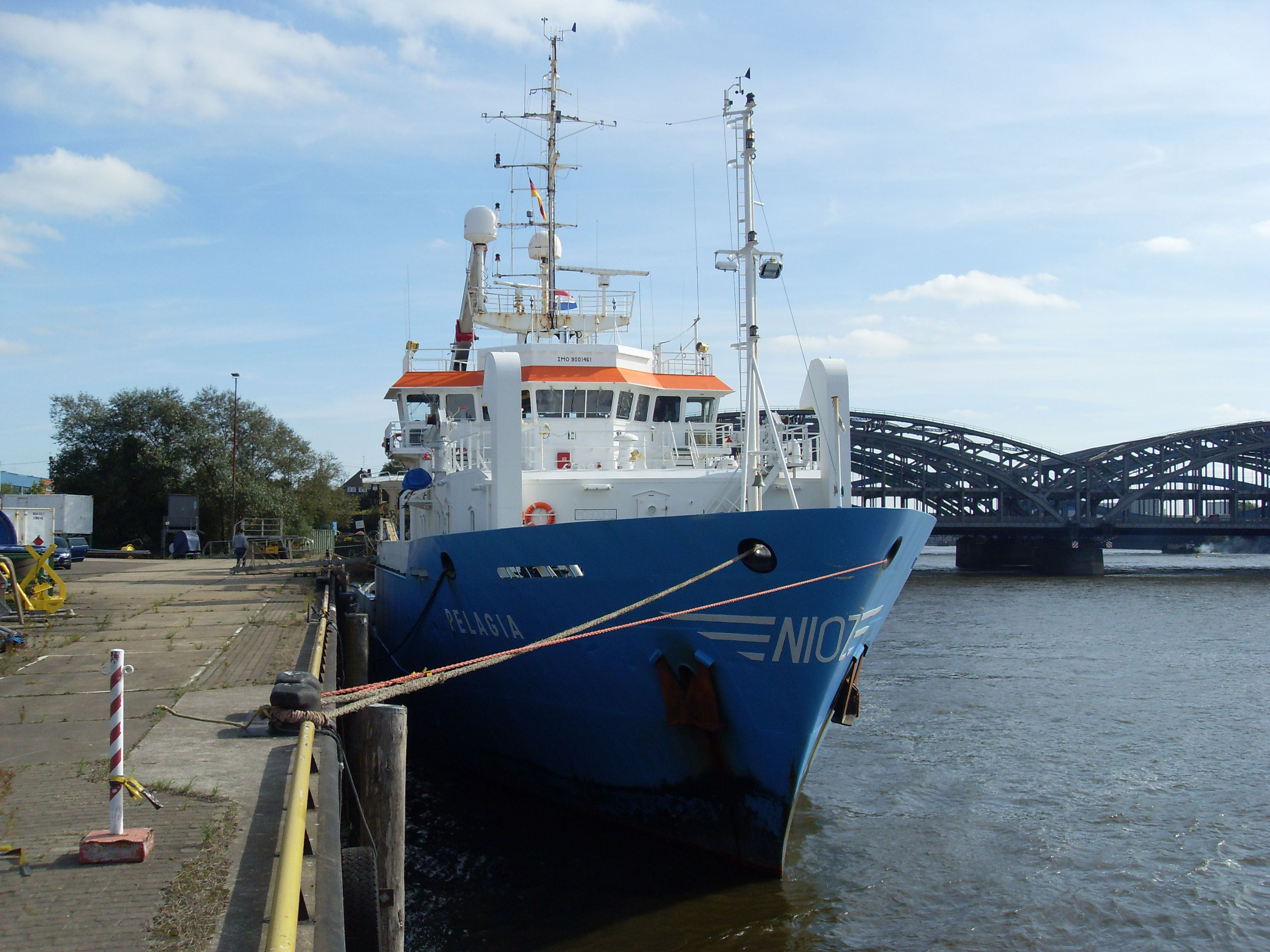 R/V Palagia, a 66 meter long research vessel from the Nederlands Instituut voor Zeeonderzoek Netherlands Institute for Sea Research (NIOZ), build 1991